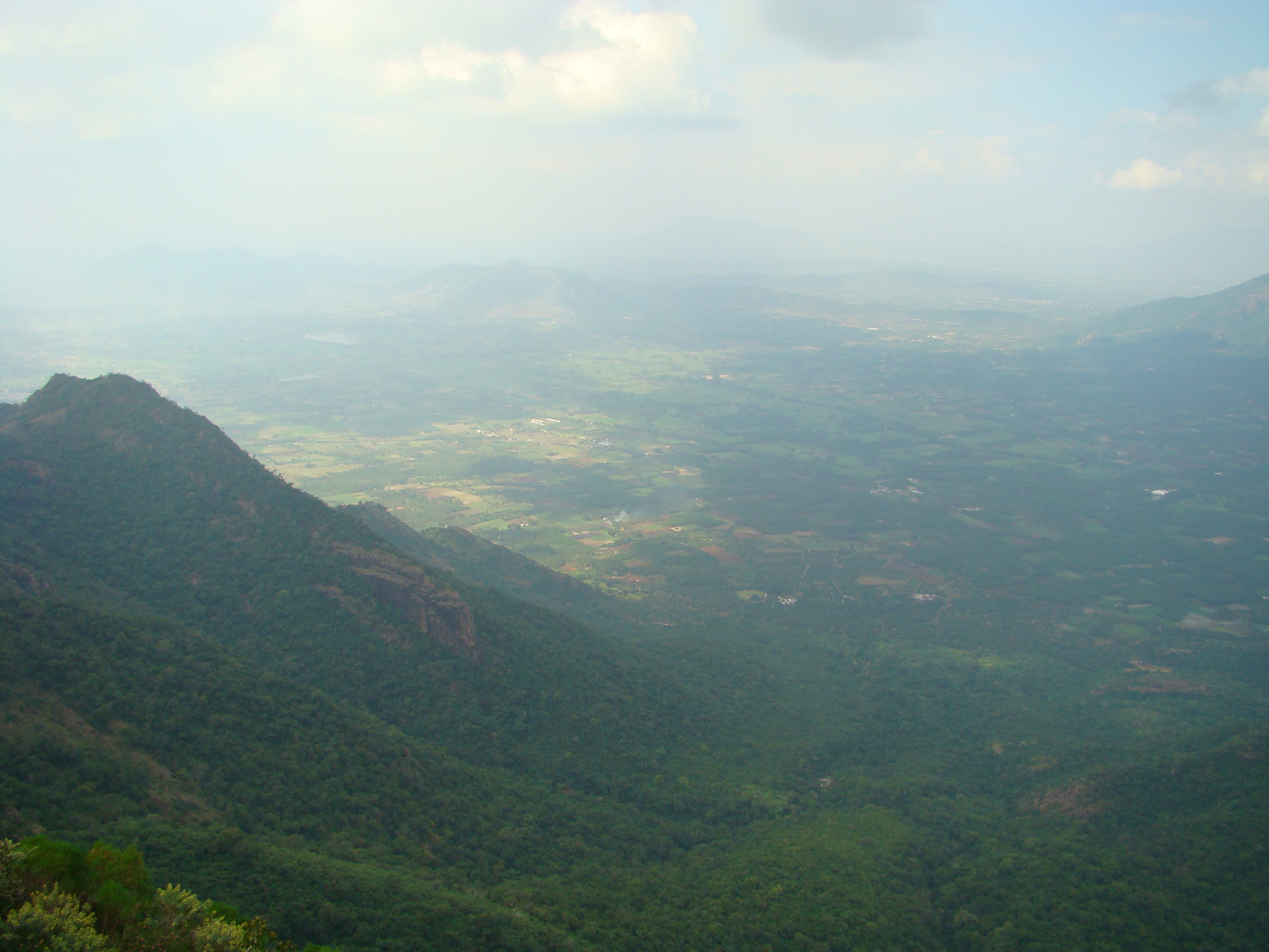 View of the Kolli Hills (Kollimalai) valley from Seekupaarai (SeekRock).